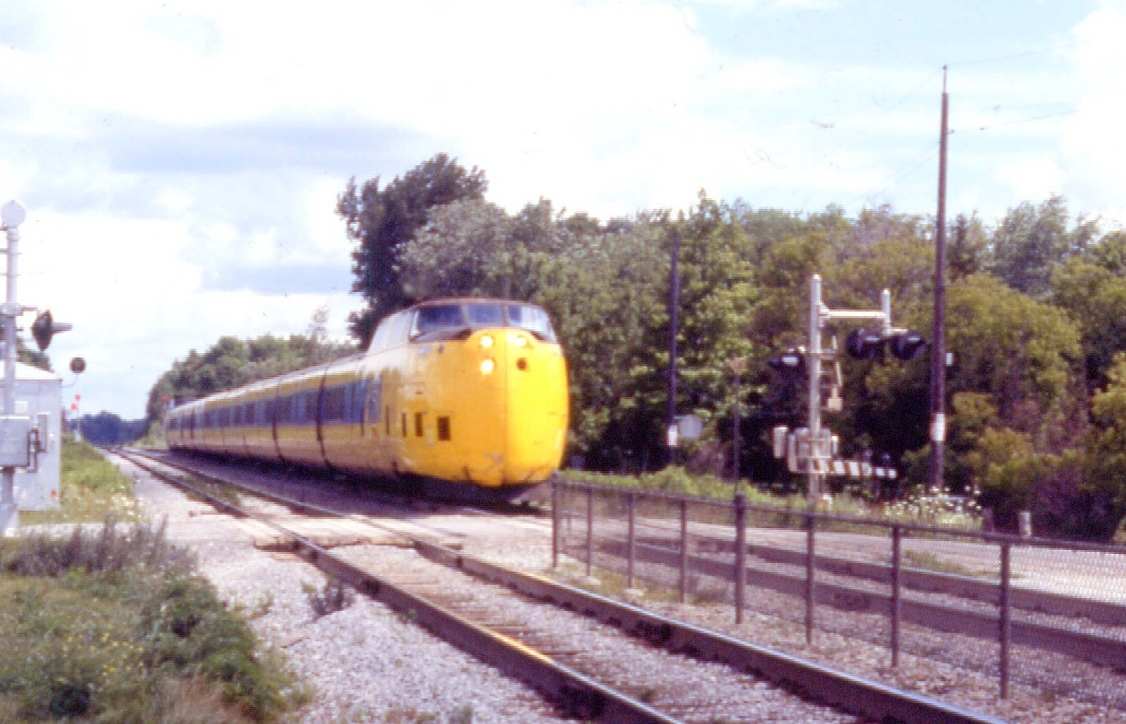 A VIA Rail TurboTrain in service between Montreal and Toronto